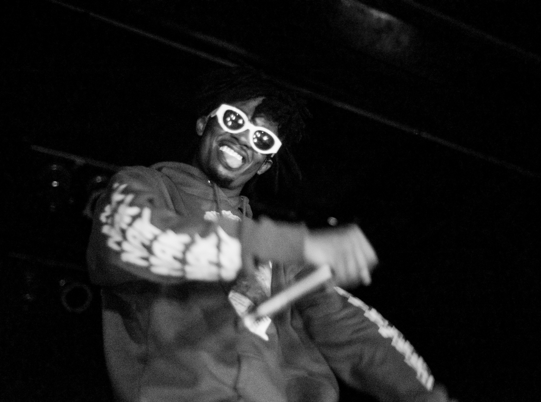 Playboi Carti performing in 2016 November